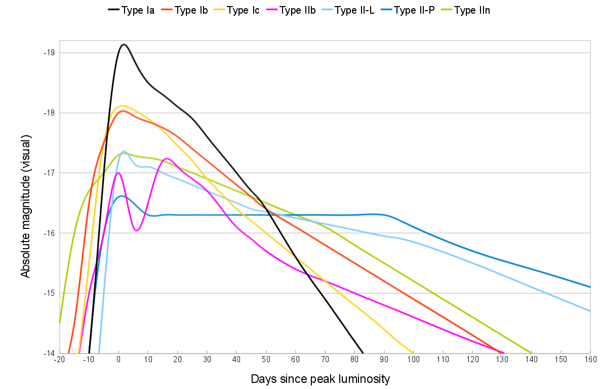 This image shows light curves of the main supernova types, representative of peak brightness, rise times, and decay times.